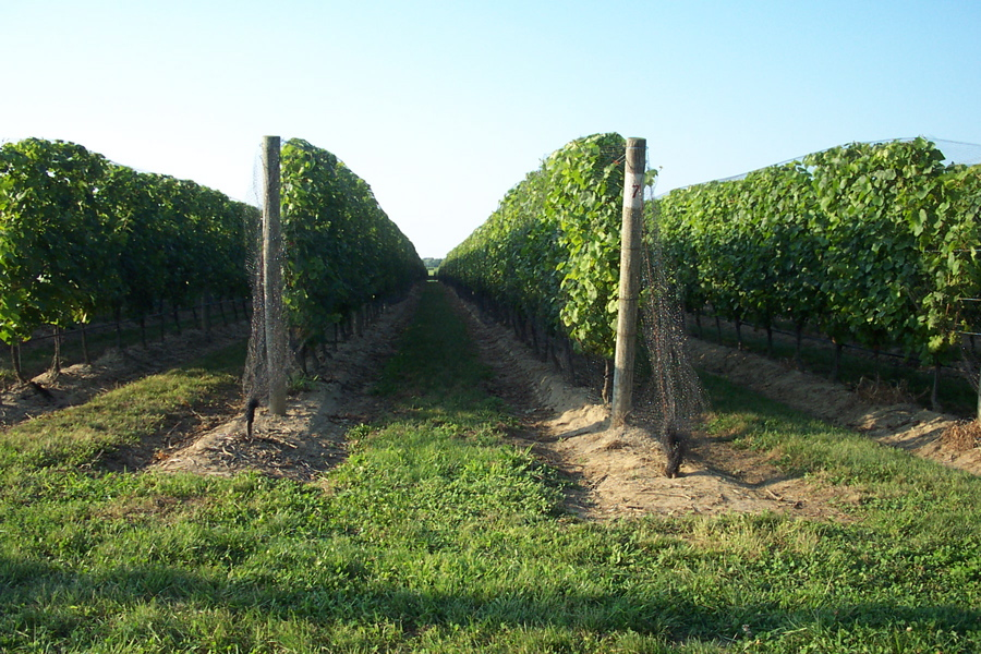 A cane-trained vineyard using vertical trellising and horizontal wires